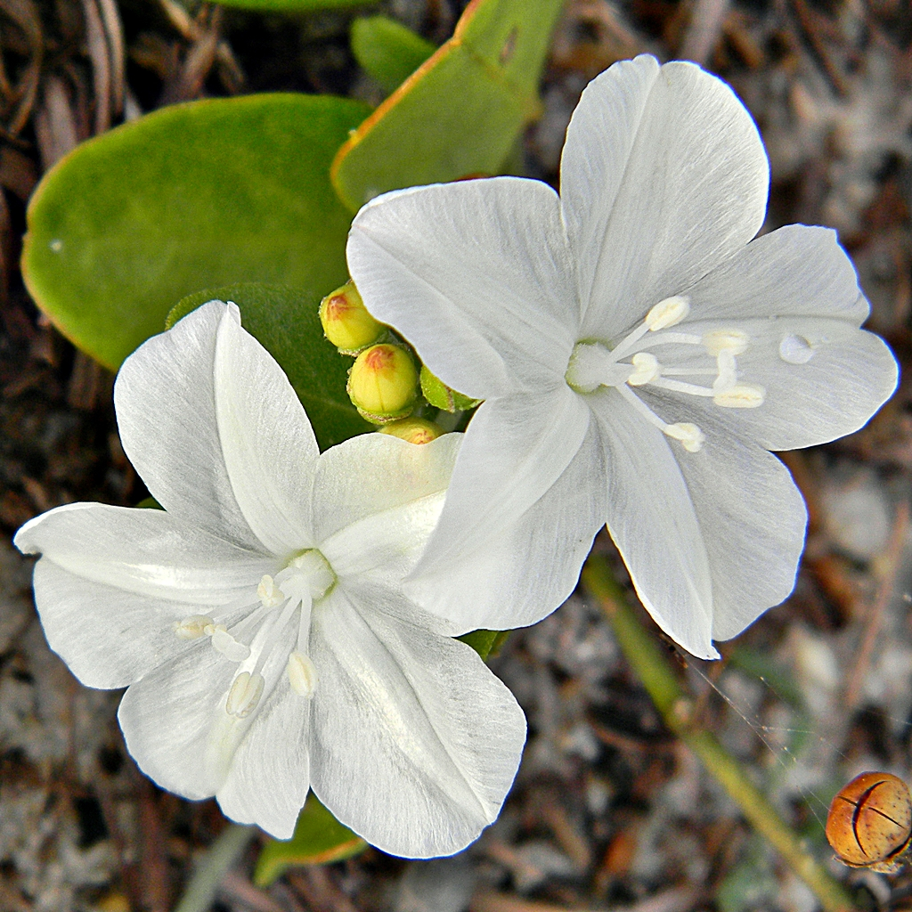 This weekend, I happened upon one of our rarest native morning glories. Beach clustervine is a federally listed endangered species with possibly less than 700 individuals left in the wild. This species is endemic to Florida dune & coastal strand communities. Surviving populations are very fragmented. The plant above was part of a project to help restore the species. A few years ago, seedlings grown at Fairchild Tropical Garden (from local seeds & cuttings) were planted back in their native habitat at Juno Dunes Natural Area, and seem to doing well. They do have to compete with exotic weeds and nearby foot traffic. Most flowers are white but a few are light pink.